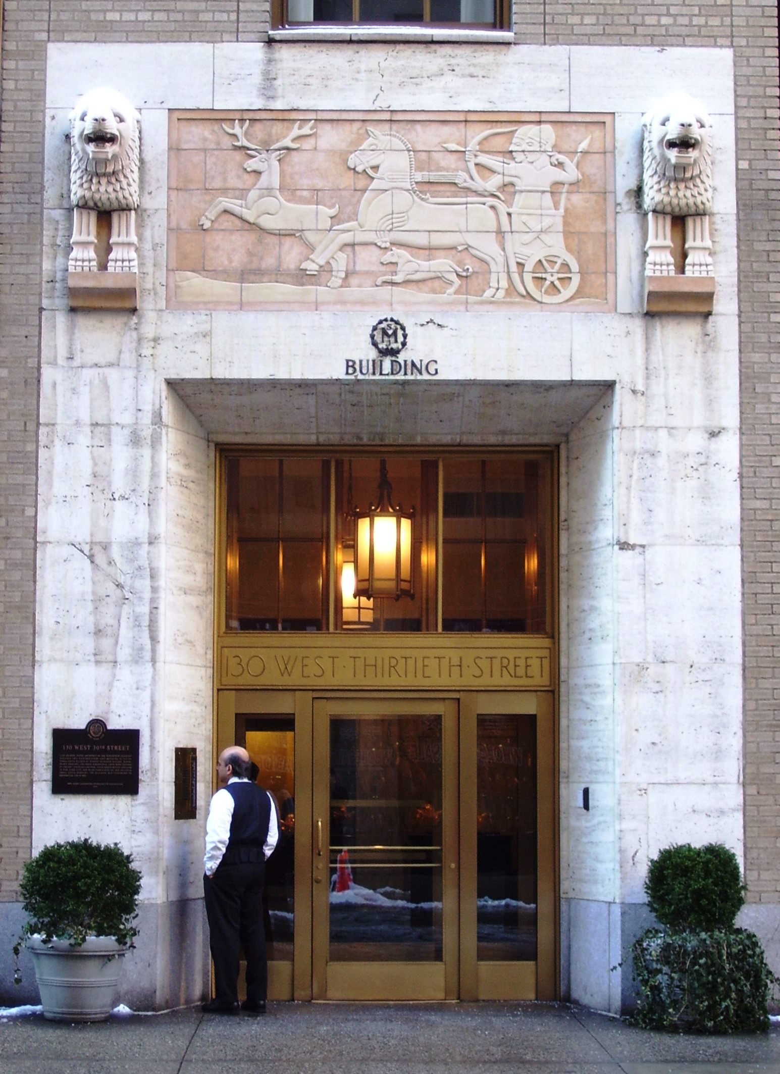 The main (western) entrance to the SJM Building at 130 West 30th Street, between the Avenue of the Americas (Sixth Avenue) and Seventh Avenue in the Chelsea neighborhood of Manhattan, New York City. The loft building was designed by noted architect Cass Gilbert, and was constructed in 1927-1928, in what is sometimes called "Assyrian Revival" style. "Figures in Mesopotamian friezes race around the walls of the building at each setback. And, over the two entrances, stylized symmetrical lions glare in polychromed terra-cotta bas-relief. (White, Norval and Willensky, Elliot. AIA Guide to NYC (4th ed.) 2000.) The building was designated a New York City landmark in 2000.